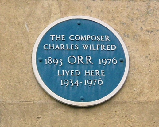 Plaque commemorating the home of Charles Wilfred Orr on St Mary's Street, Painswick, Gloucestershire, England. This image represents an Open Plaques entry #8561.